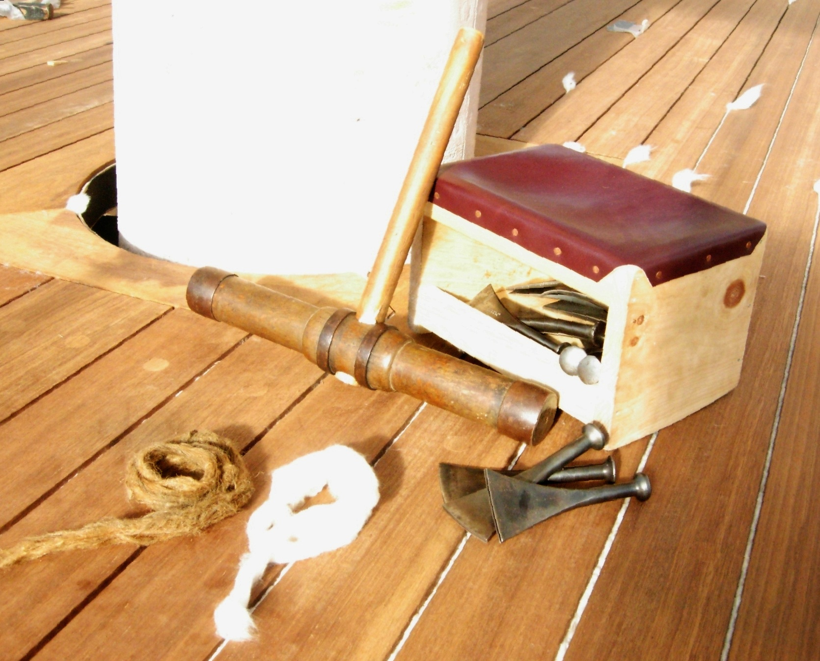 The tools of traditional caulking; Caulking mallet, caulker's seat, caulking irons, cotton and oakum. Shown on the bridge deck of the Cruiser Olympia